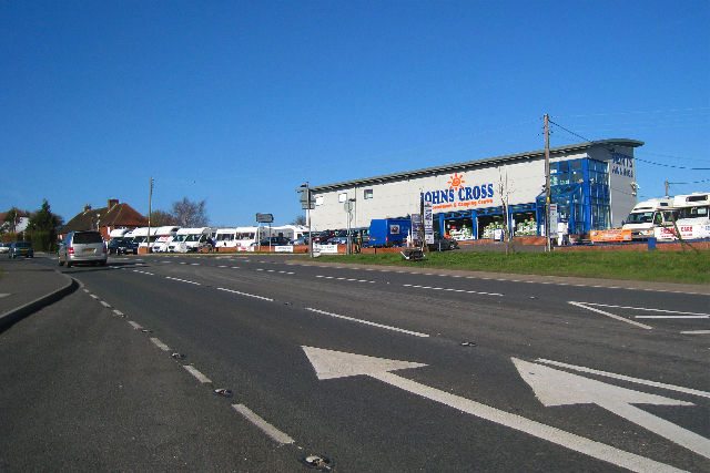 Caravan and Camping Centre, John's Cross